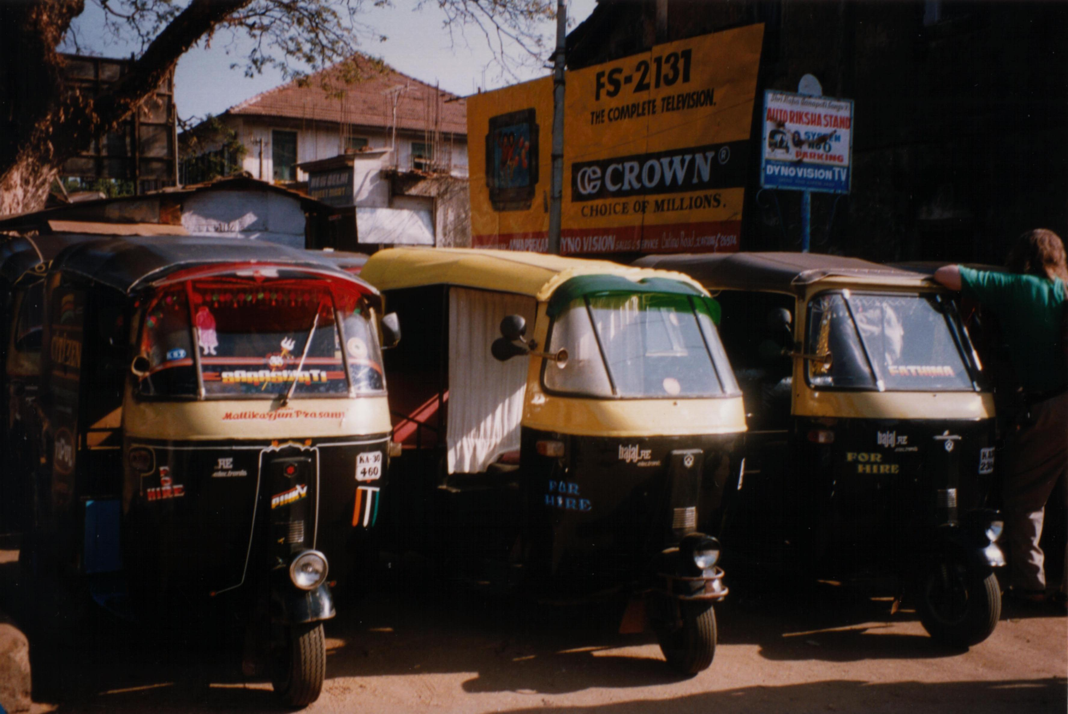 Auto rickshaws in India.